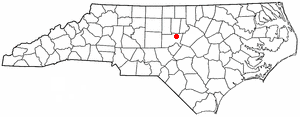 Category:North Carolina Dot Maps